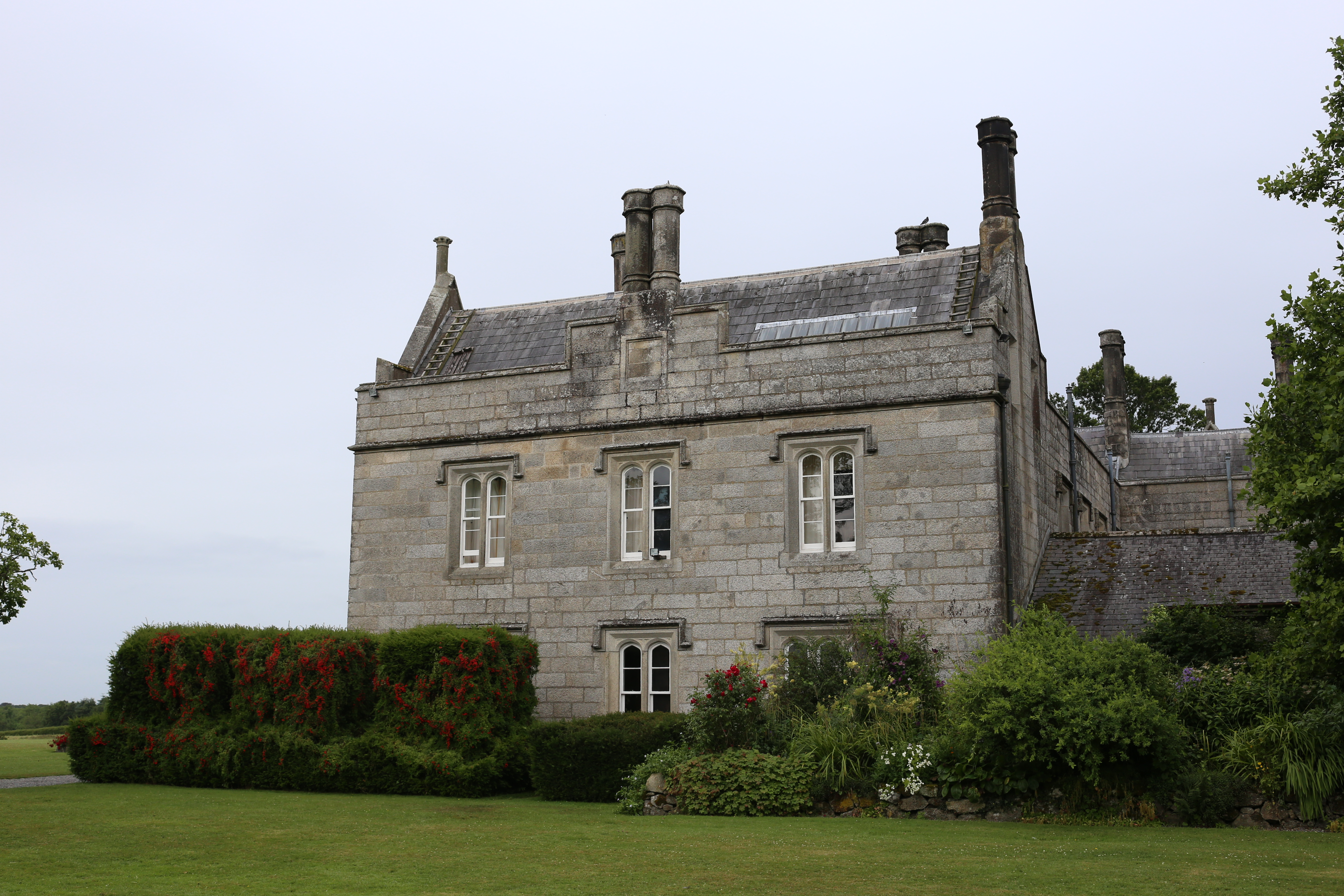 The Lisnavagh Estate lies just outside the village of Rathvilly in County Carlow, Ireland. Lisnavagh is the family seat of the McClintock-Bunbury family